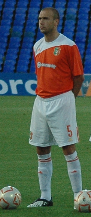 Mihail Venkov Litex Lovech players